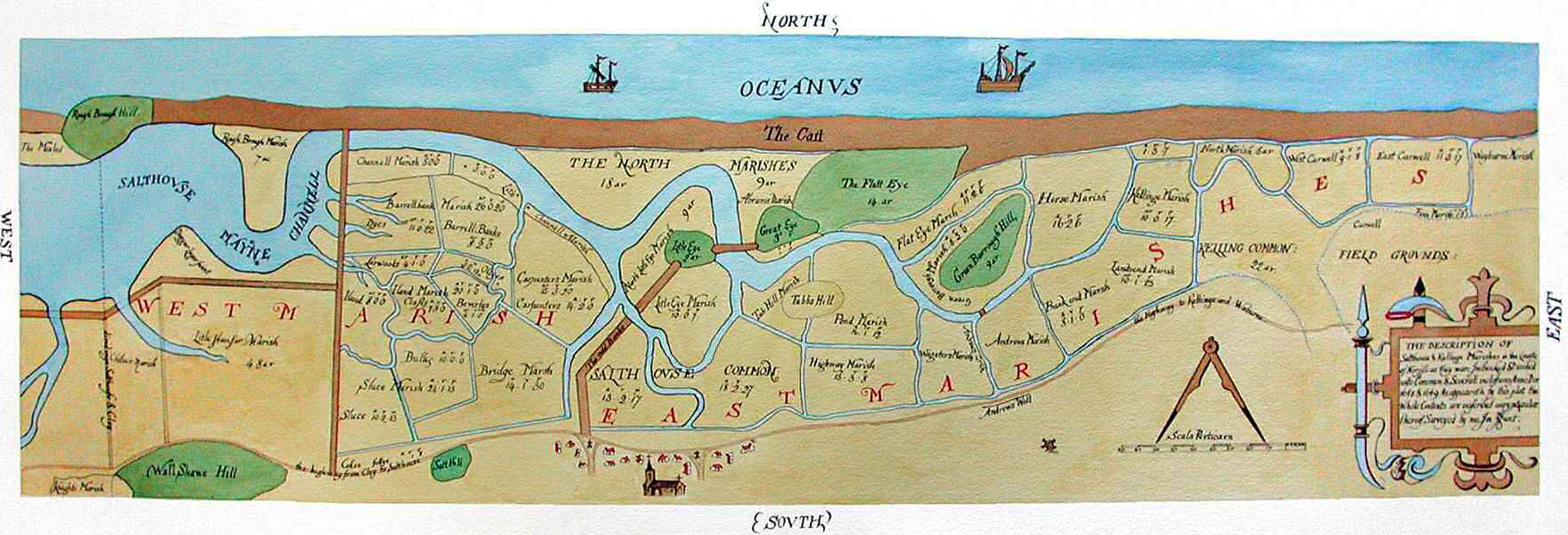 A handmade copy of the Salthouse ancient channel map made by Surveyor John Hunt in 1649. Main Wikipedia article: Salthouse